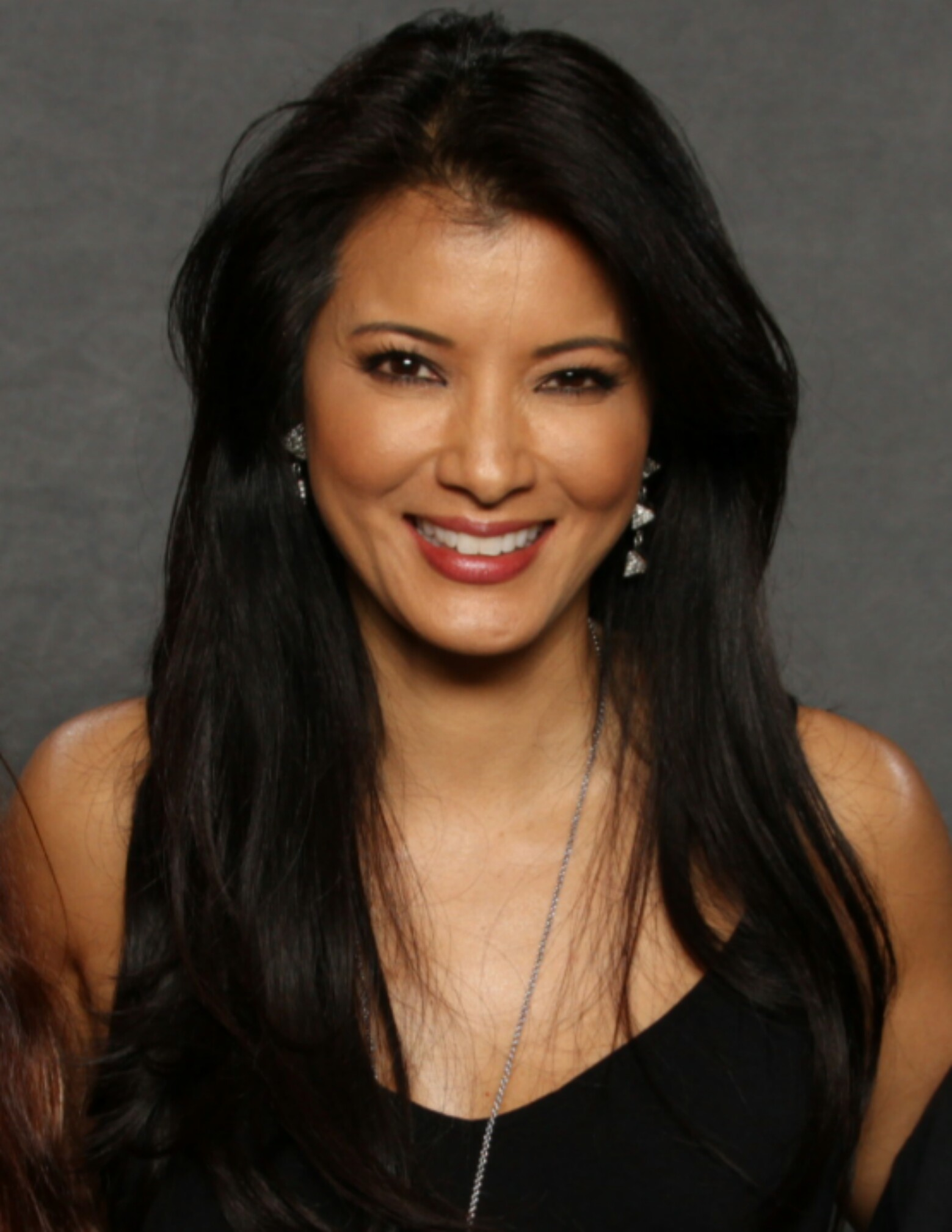 Hu at the 2016 MagicCity Comic Con